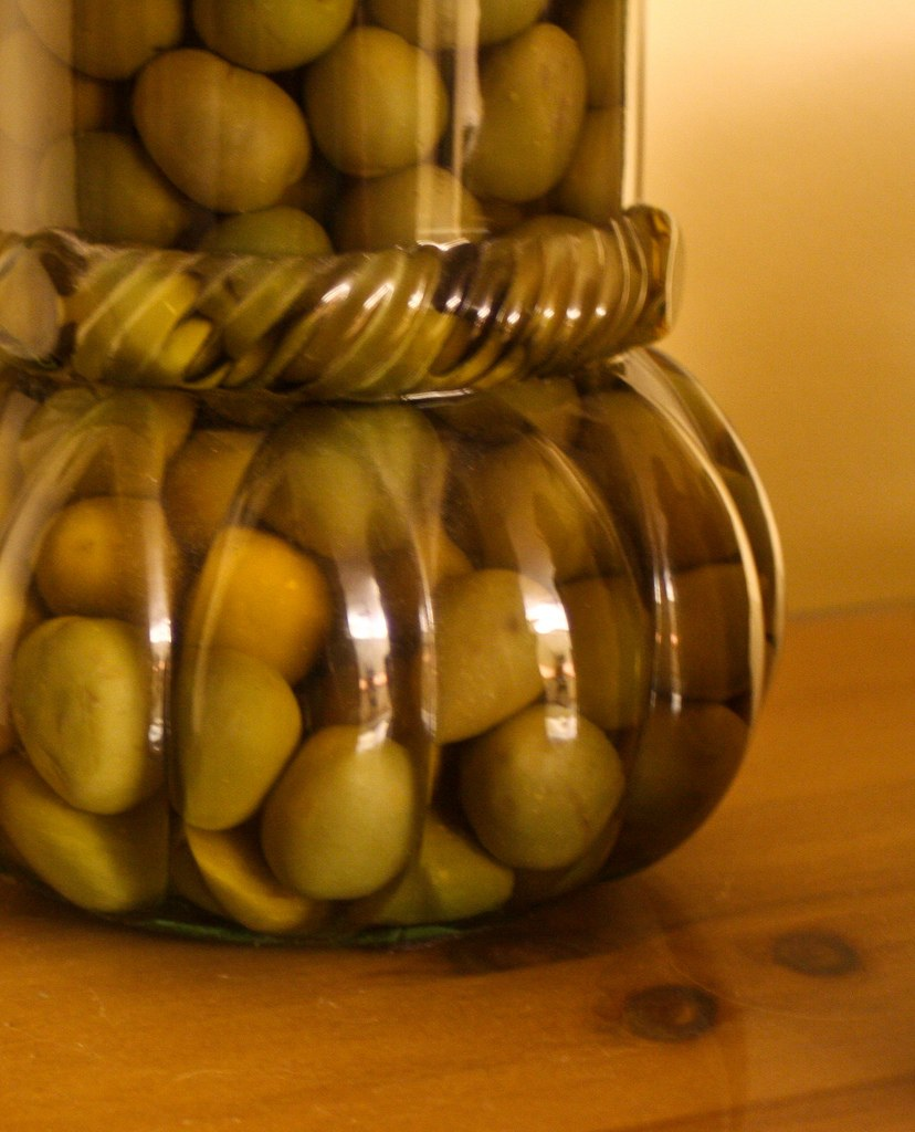 Olives jar : Bella di Cerignola is a cultivars of the Olea europaea olive tree from Cerignola - Italy